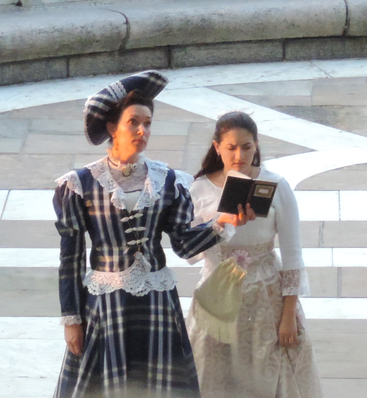 Gwendolyn (Amber Bodgdewiecz) proves to Cecily (Patrina Caruana) that Ernest has proposed.